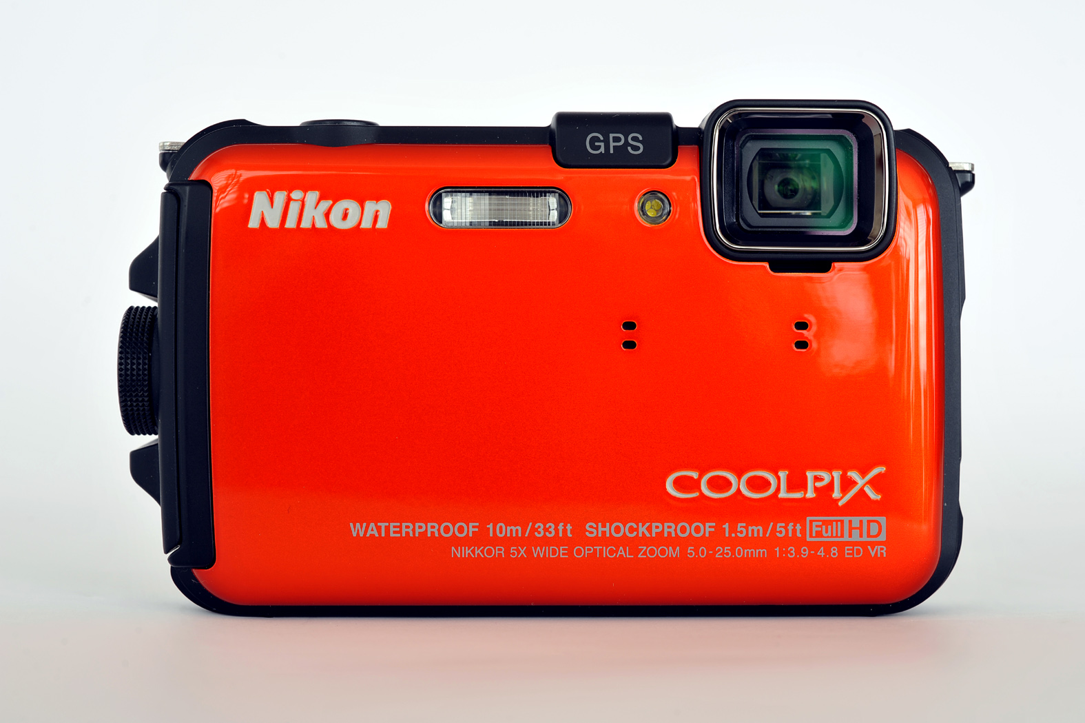 Nikon Coolpix AW100, front view.